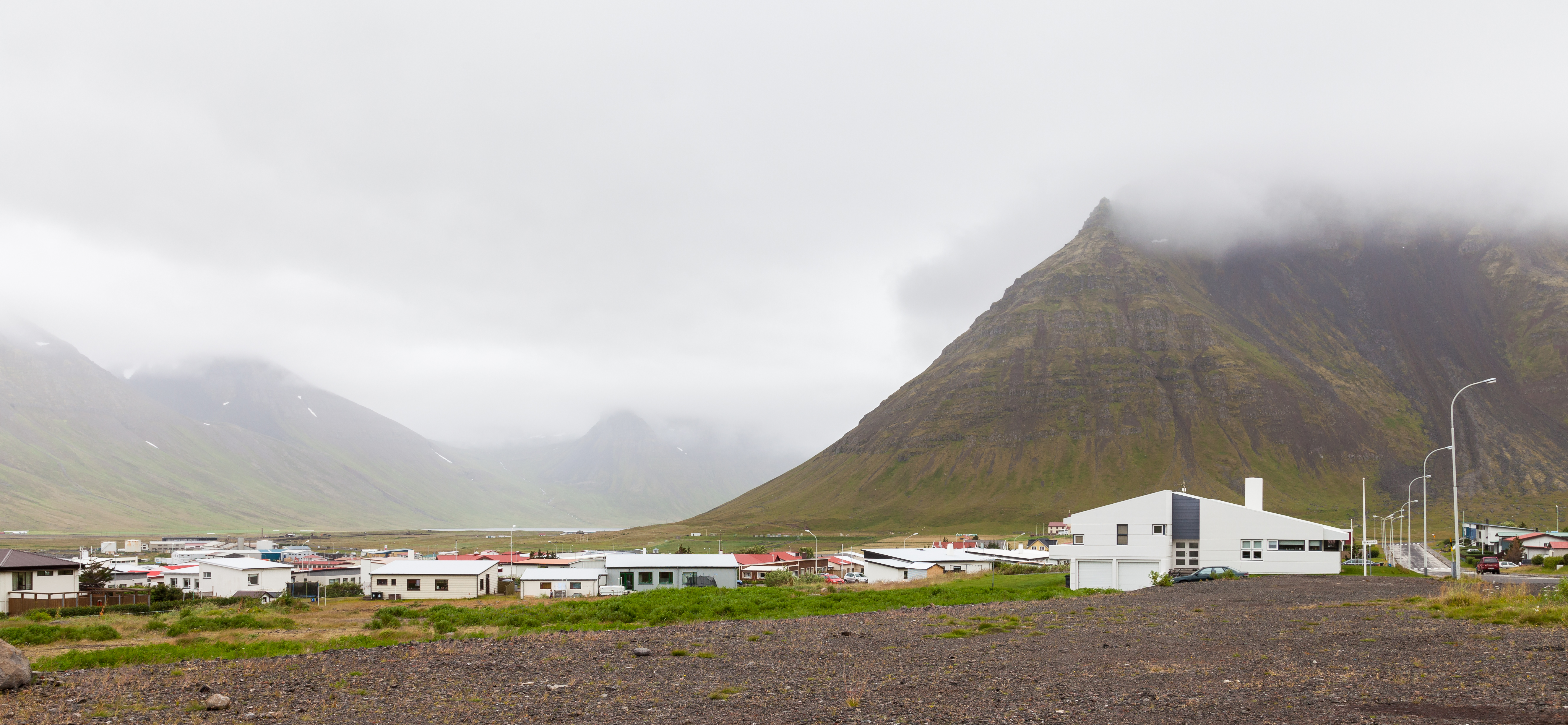 Bolungarvík, Vestfirðir, Iceland.